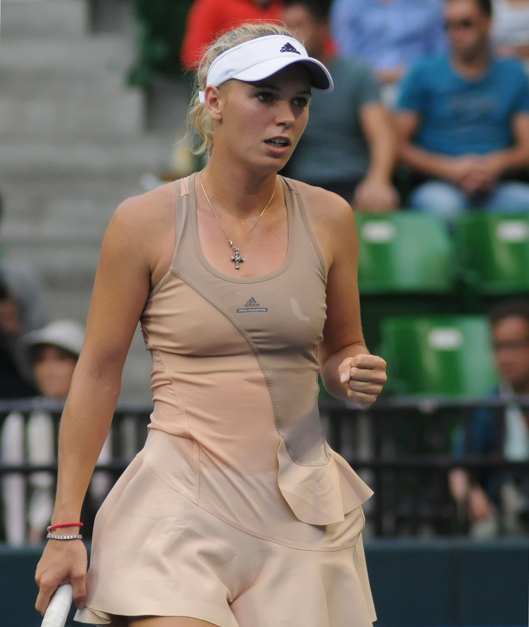 Caroline Wozniacki at the 2014 Toray Pan Pacific Open